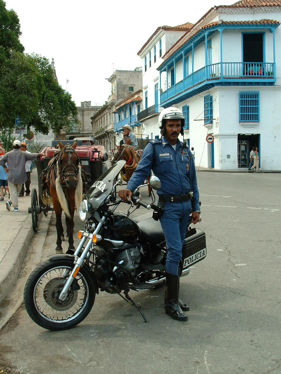 Moto Guzzi Nevada of Cuban Police (We were told strictly not to take photos of Cubans in uniform, but not one to miss a photo opportunity I asked this guy if it was OK. He seemed a bit bemused, but agreed).